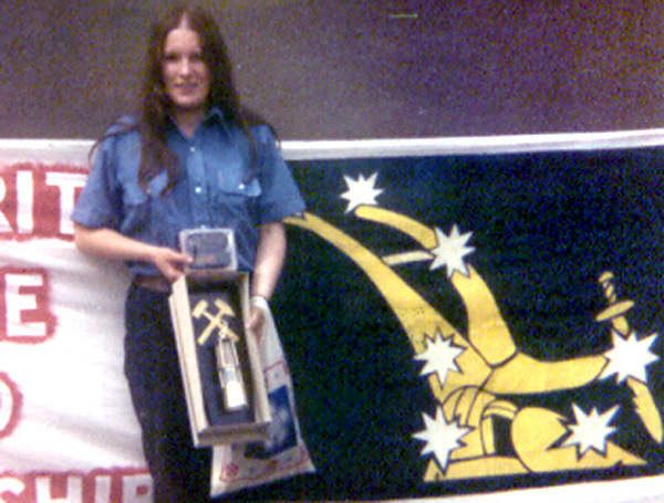 Photograph of Madge Davison taken by me in August 1973.